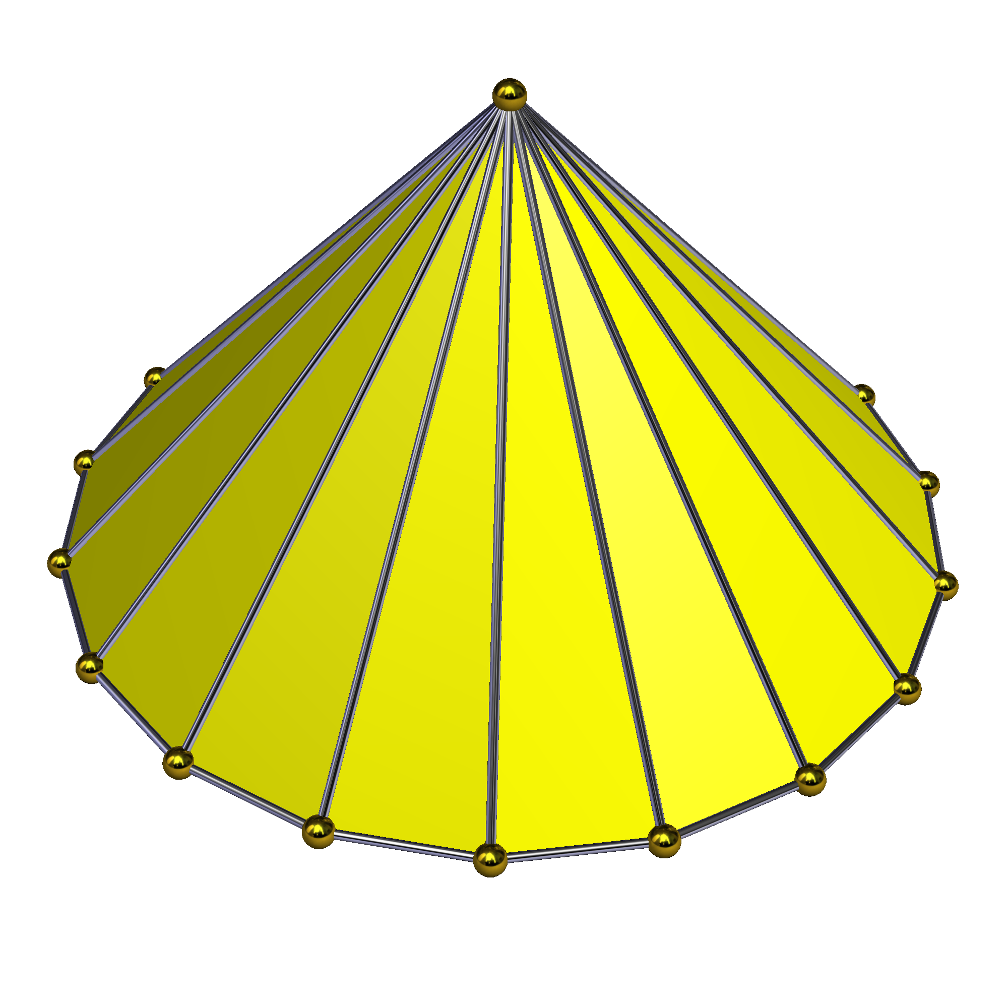 18-gonal pyramid